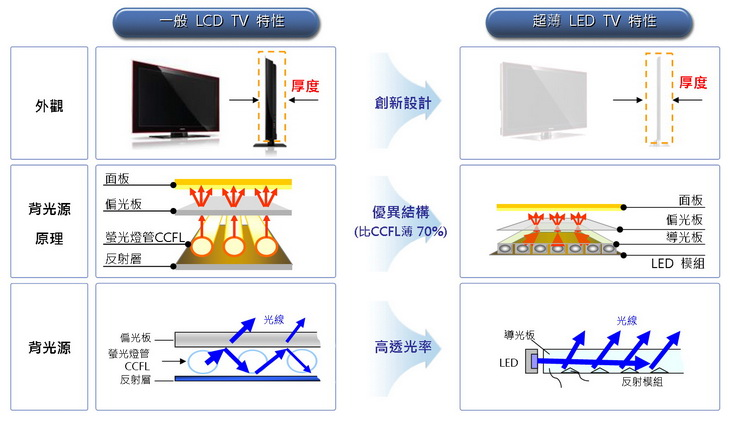 LCD TV vs LED TV